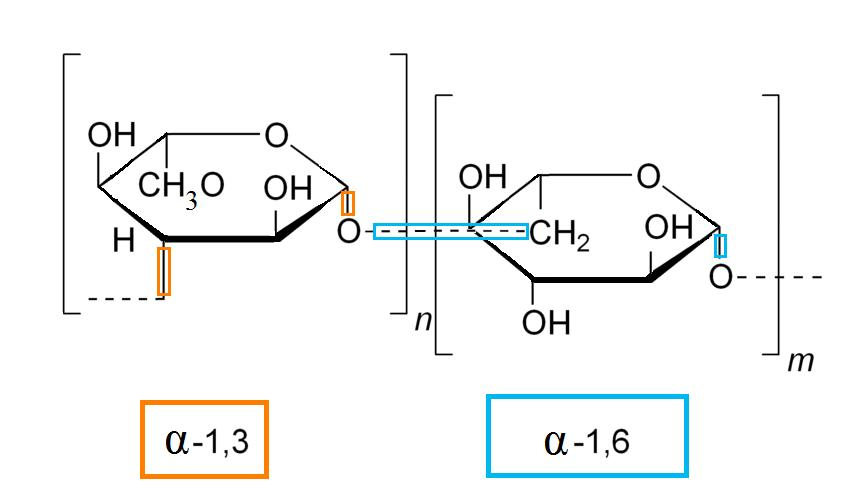 Diagram showing how to identify alpha glycosidic bonds and their numeric positions.